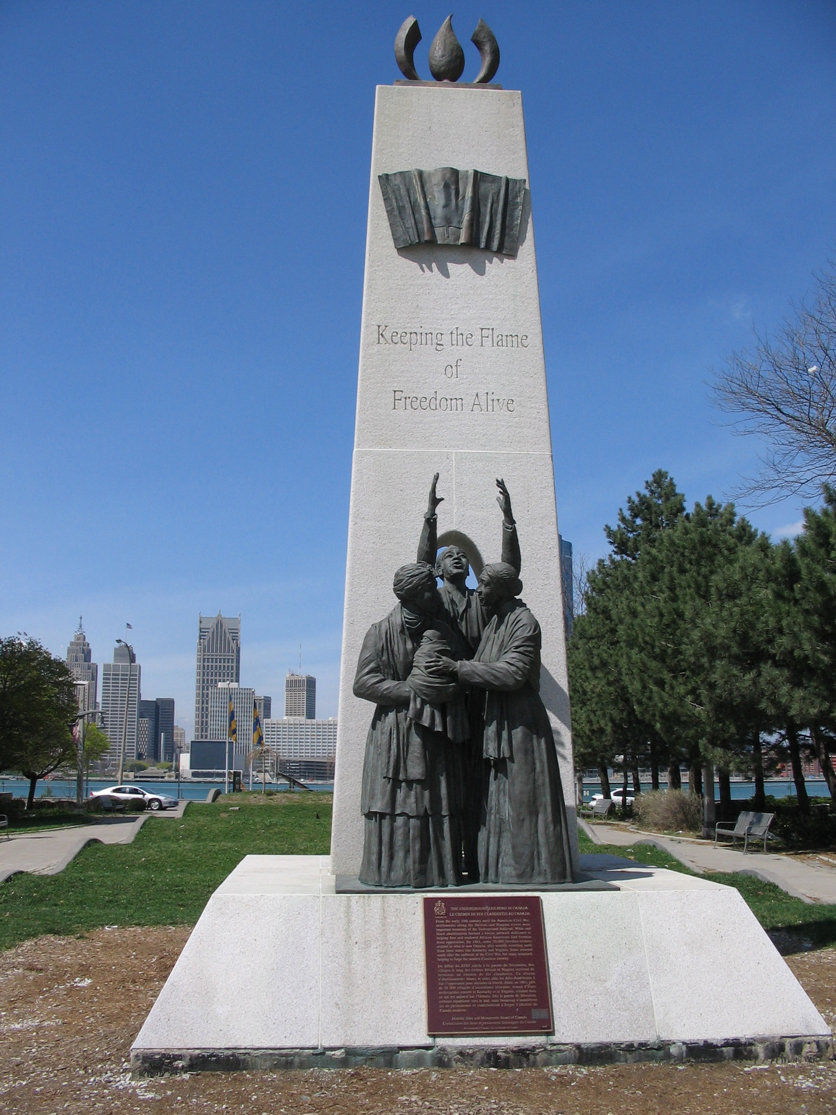 The figures are facing Canada, one with arms raised. Across the river in Hart Plaza there is another one with the figures looking towards Canada and pointing.